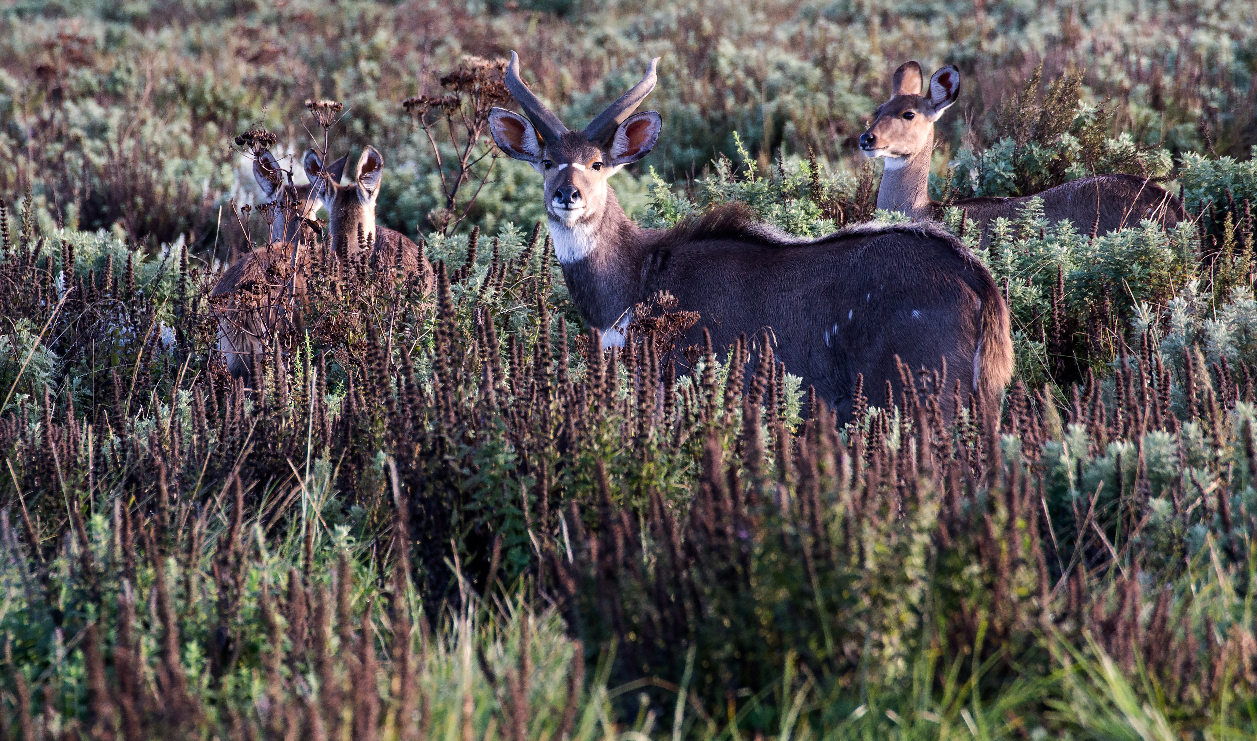 Mountain nyala in Ethiopia